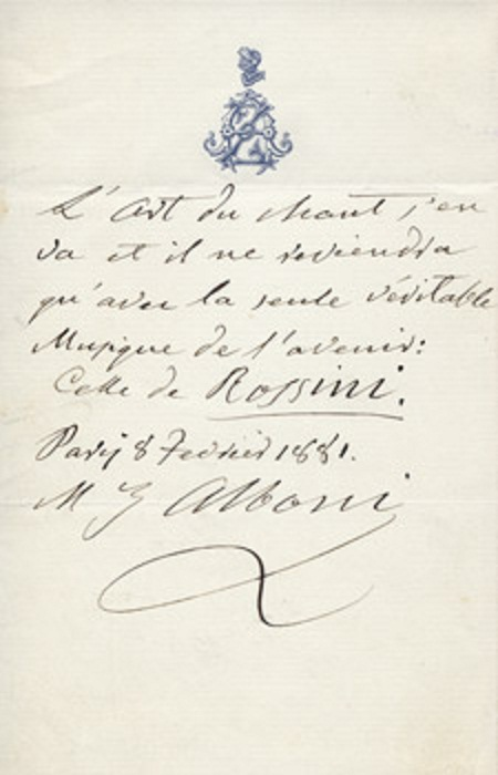 Handwritten note by Marietta Alboni about Rossini music